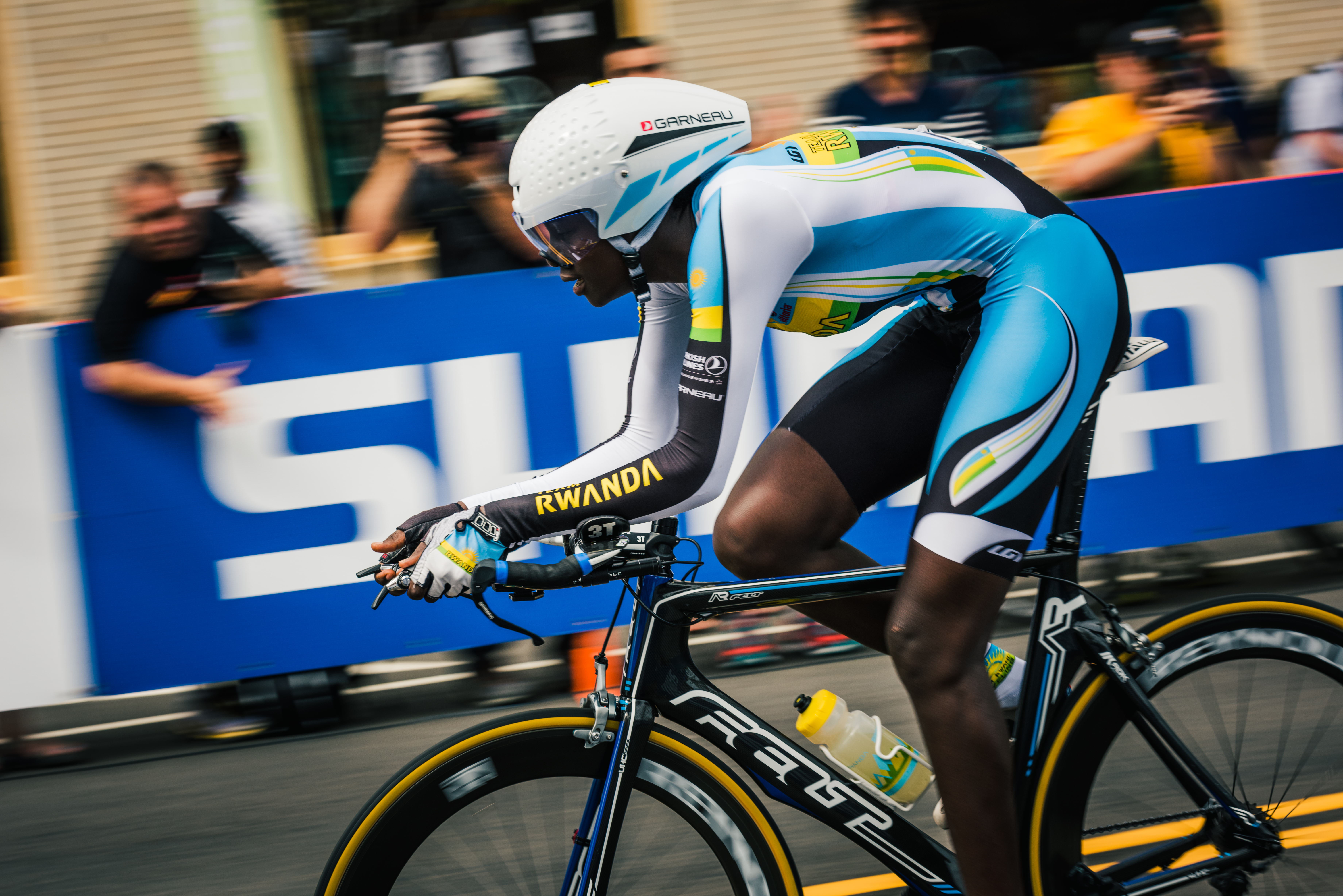 UCI Bike Race 2015 Richmond, VA, Jeanne D’arc Girubuntu 2015 UCI Road World Championships – Women's time trial in Richmond, USA